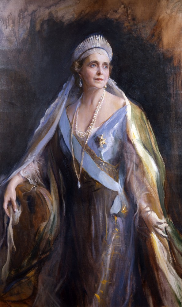 Queen Marie of Romania, nee Princess Marie of Edinburgh